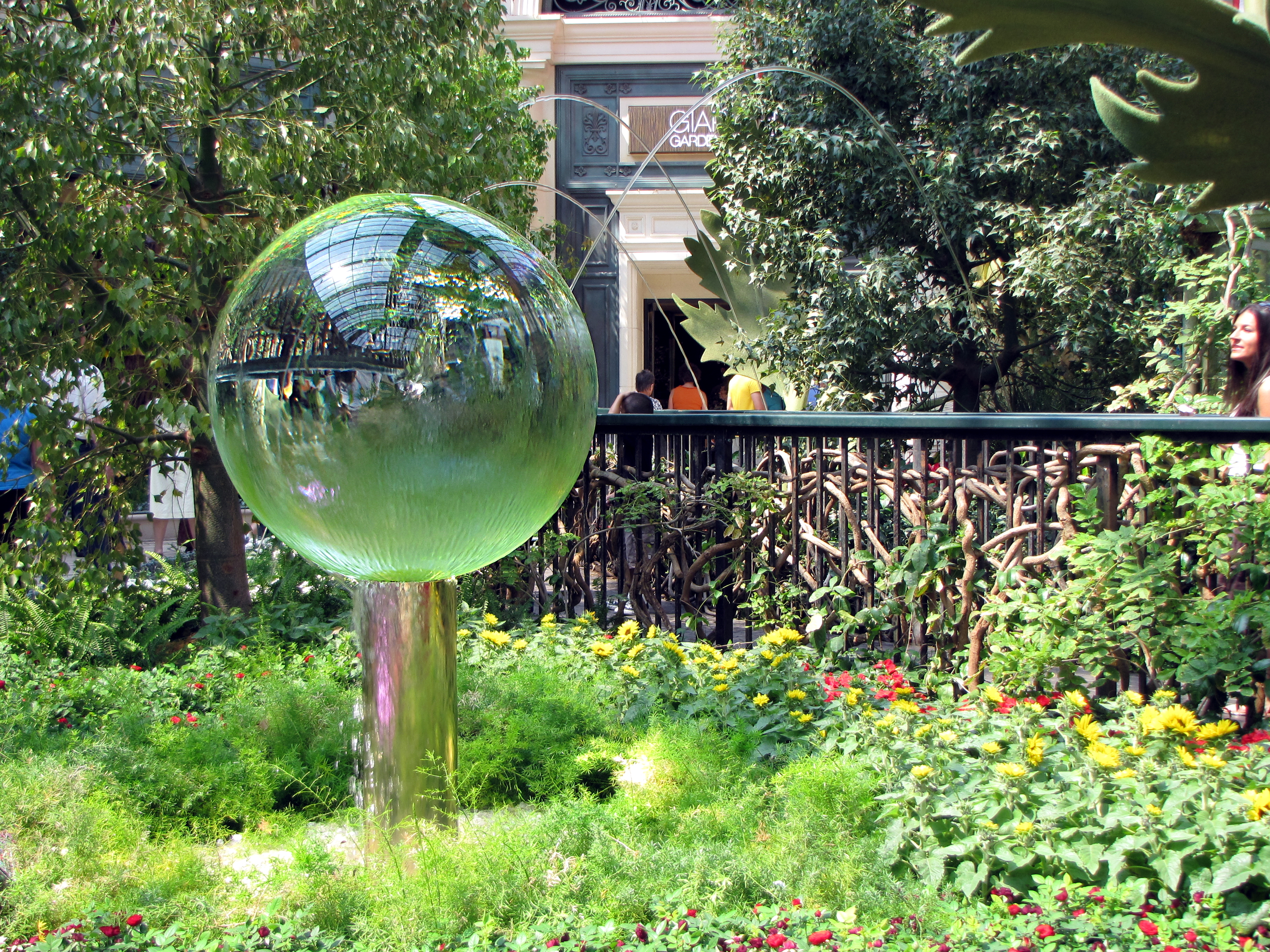 One of Bellagio's many beautiful garden scenes.